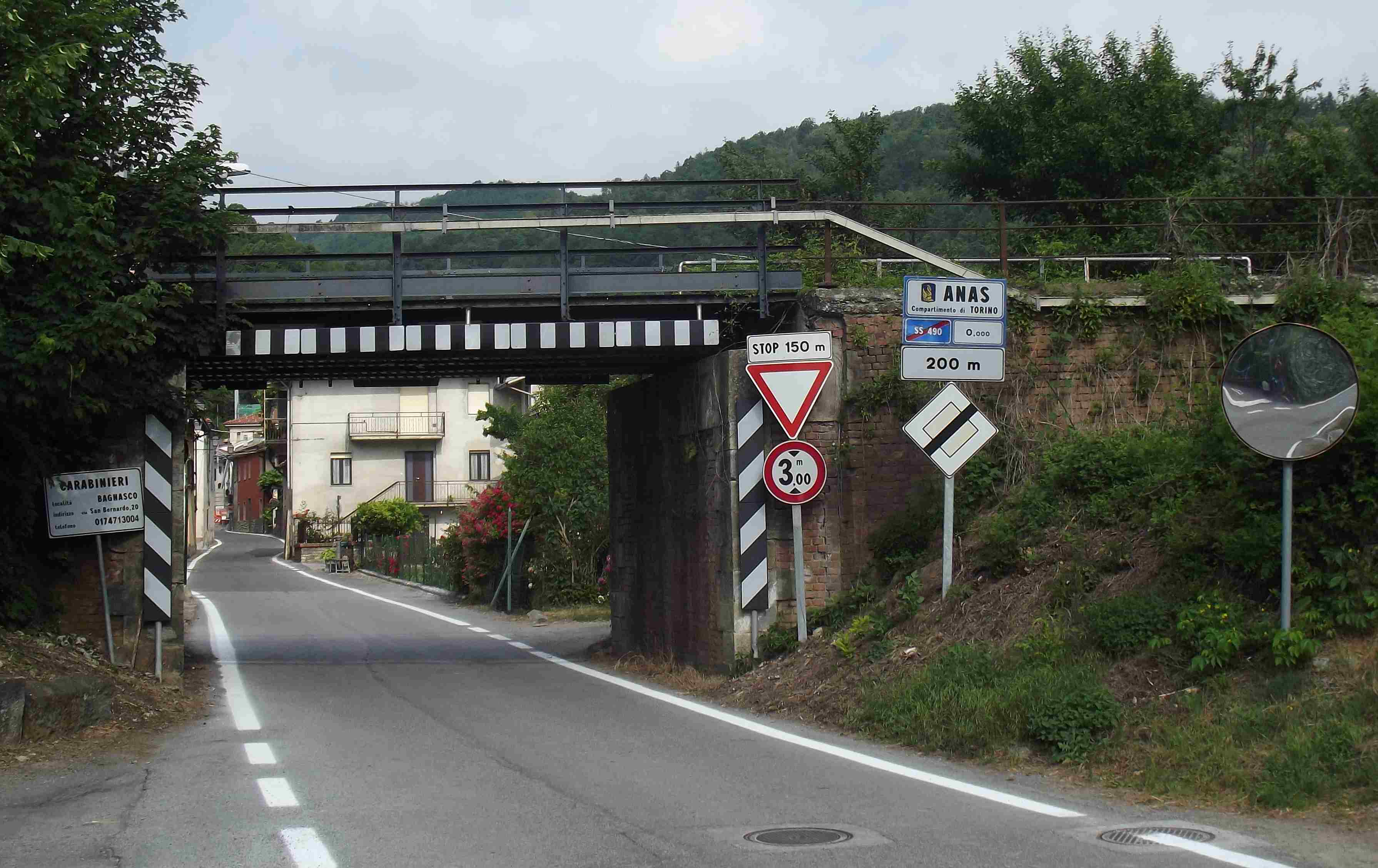 Nucetto (CN